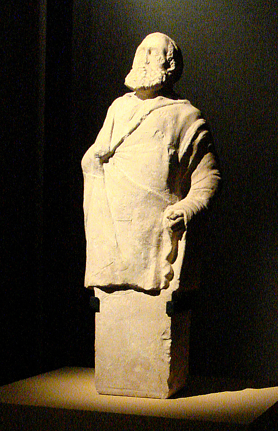 Sculpture of an old man. Ai Khanoum, 2nd century BCE. Musée Guimet. Personal photograph 2006.